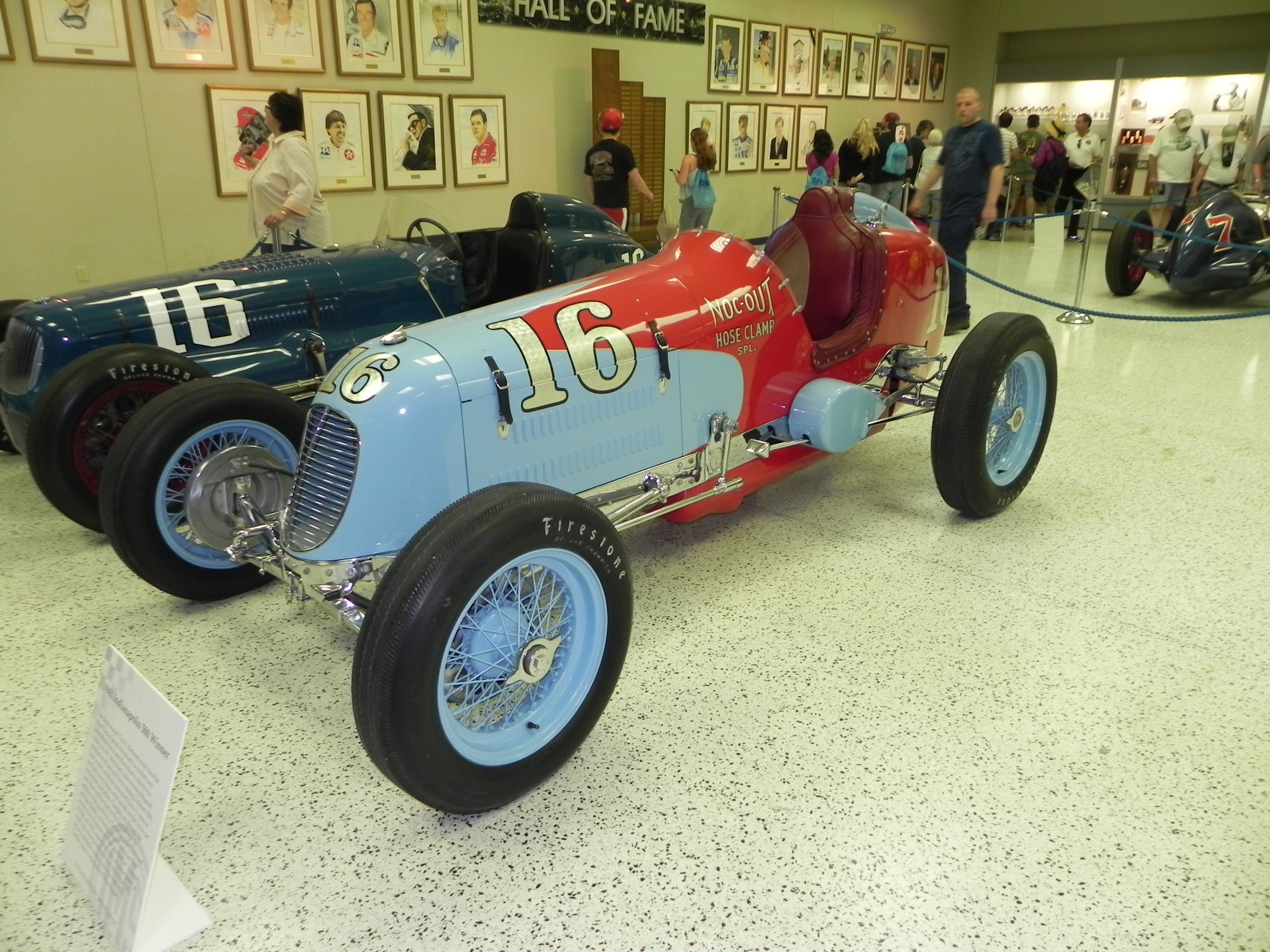 Image of the winning car of the 1941 Indianapolis 500 (Floyd Davis/Mauri Rose). Photo was taken at the Indianapolis Motor Speedway Hall of Fame Museum, during the month of May 2011, at the 100th Anniversary "Ultimate Indianapolis 500 Winning Car Collection."